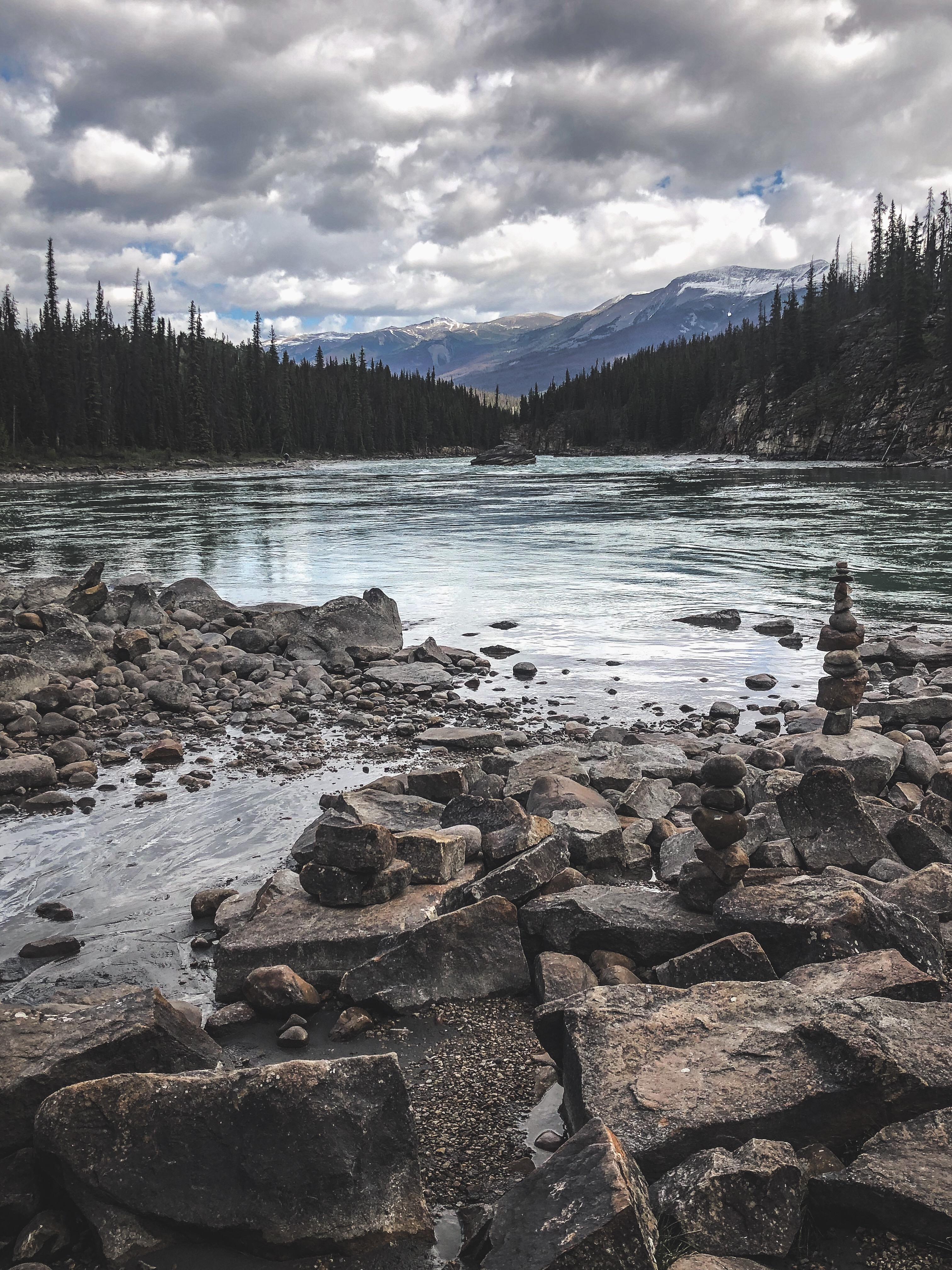 Athabasca River just below the Athabasca Falls.